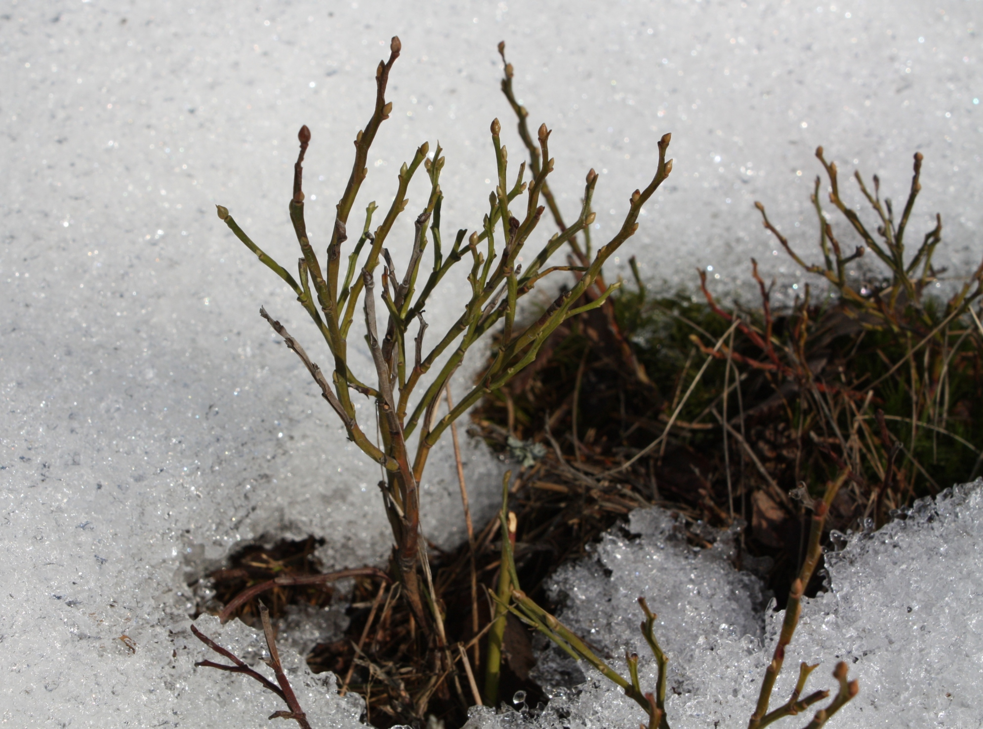 Blueberry (Vaccinium myrtillus) early in the spring when the snow is melting. - Kerava, Finland